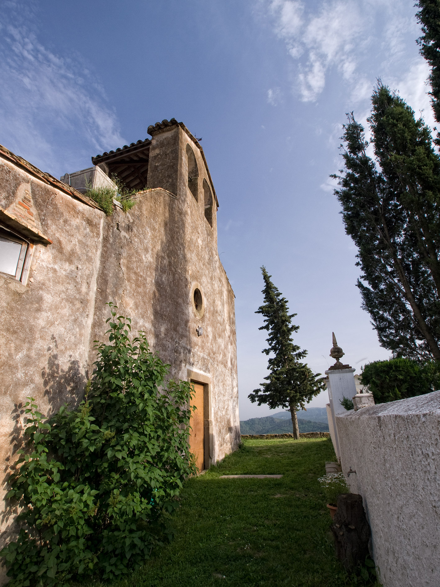 Església de Sant Julià del Llor (Catalonia, Spain)